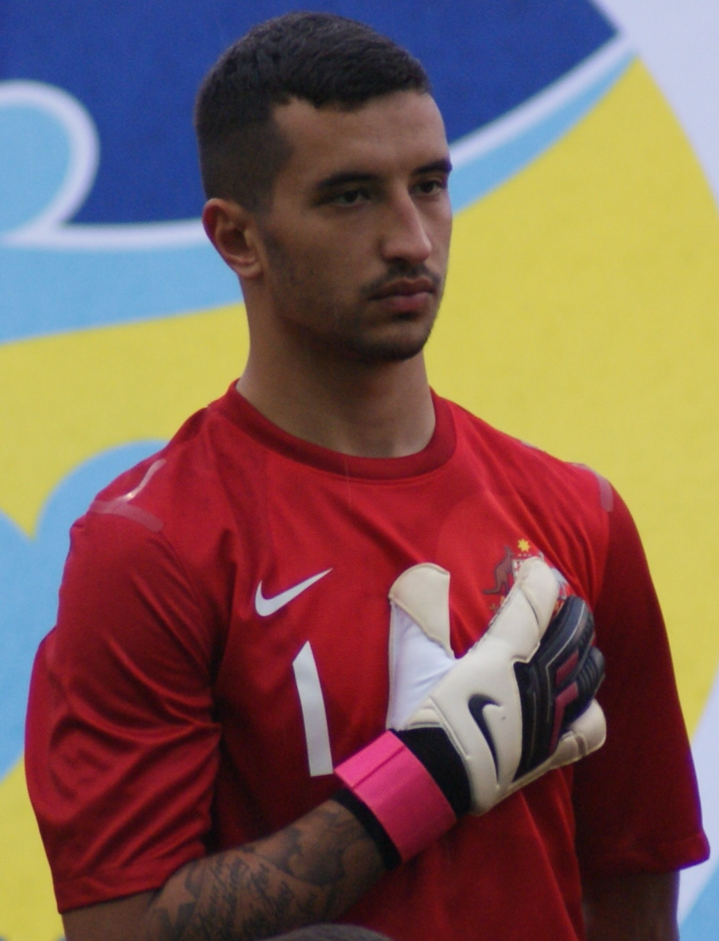 Young Socceroos vs New Zealand